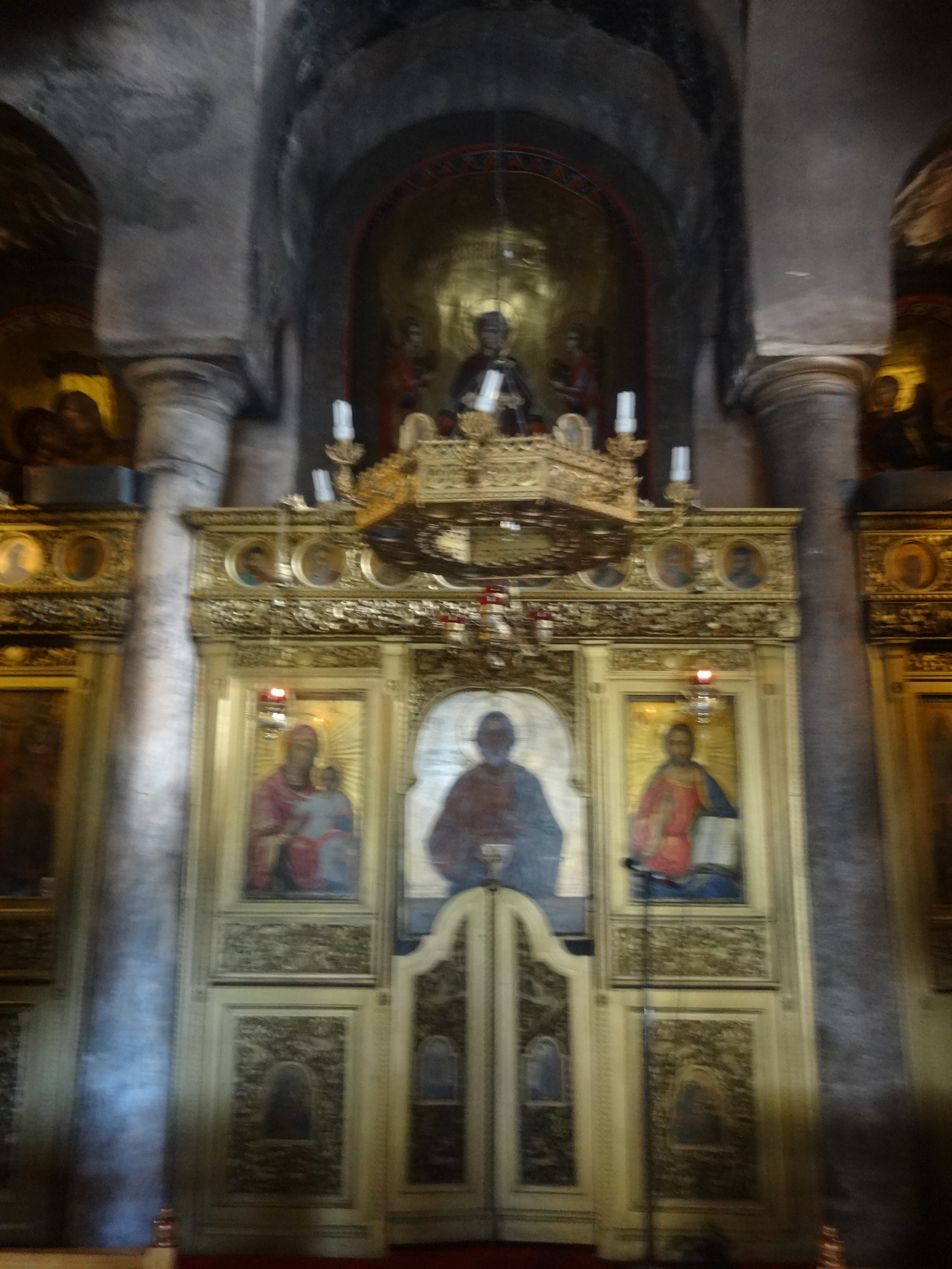 Church of Agion Asomaton, 11 century, Athens, Greece, int.